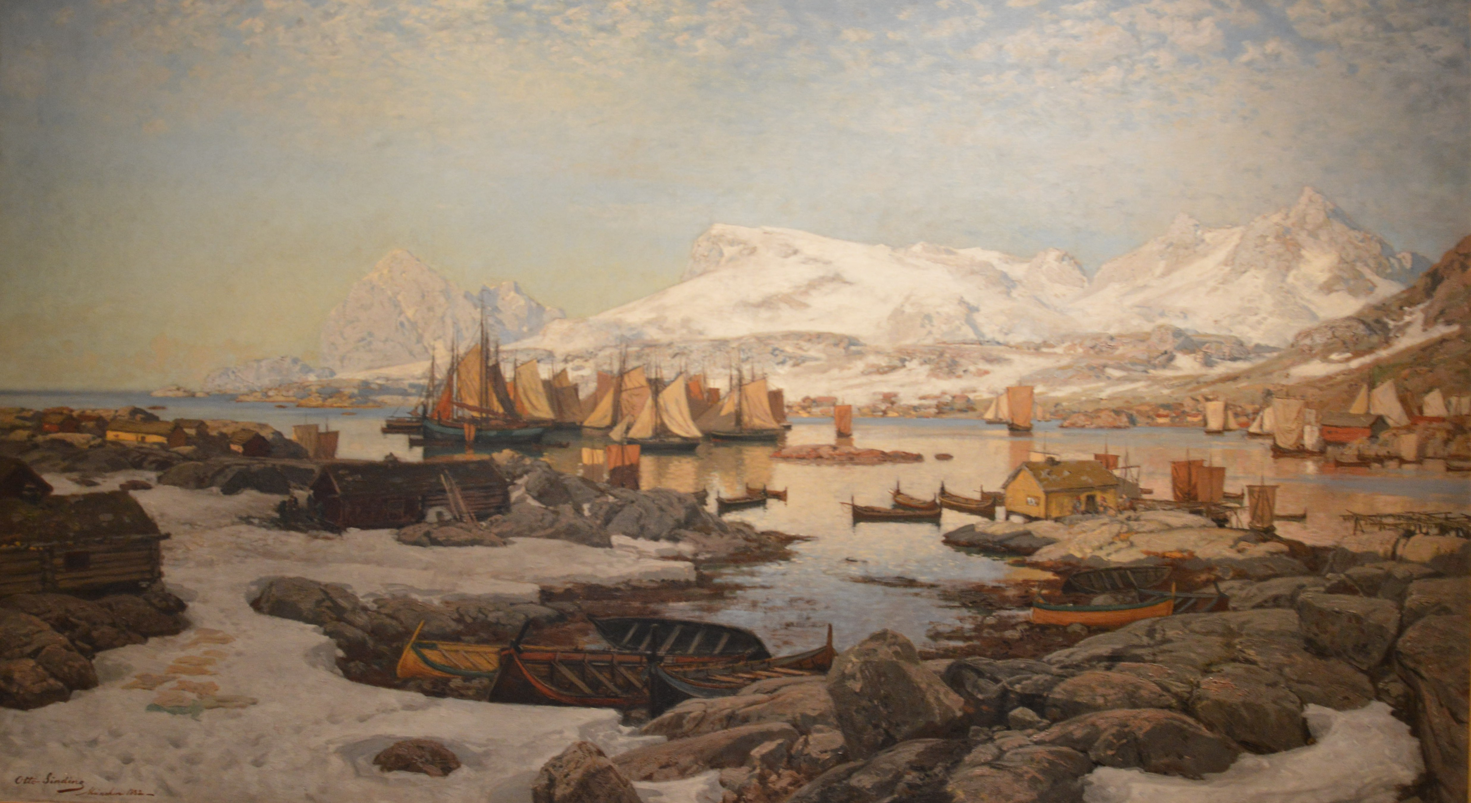 Spring Day in Lofoten